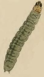 Stainton’s Natural History of the Tineina (1855–1873): Bucculatrix cristatella